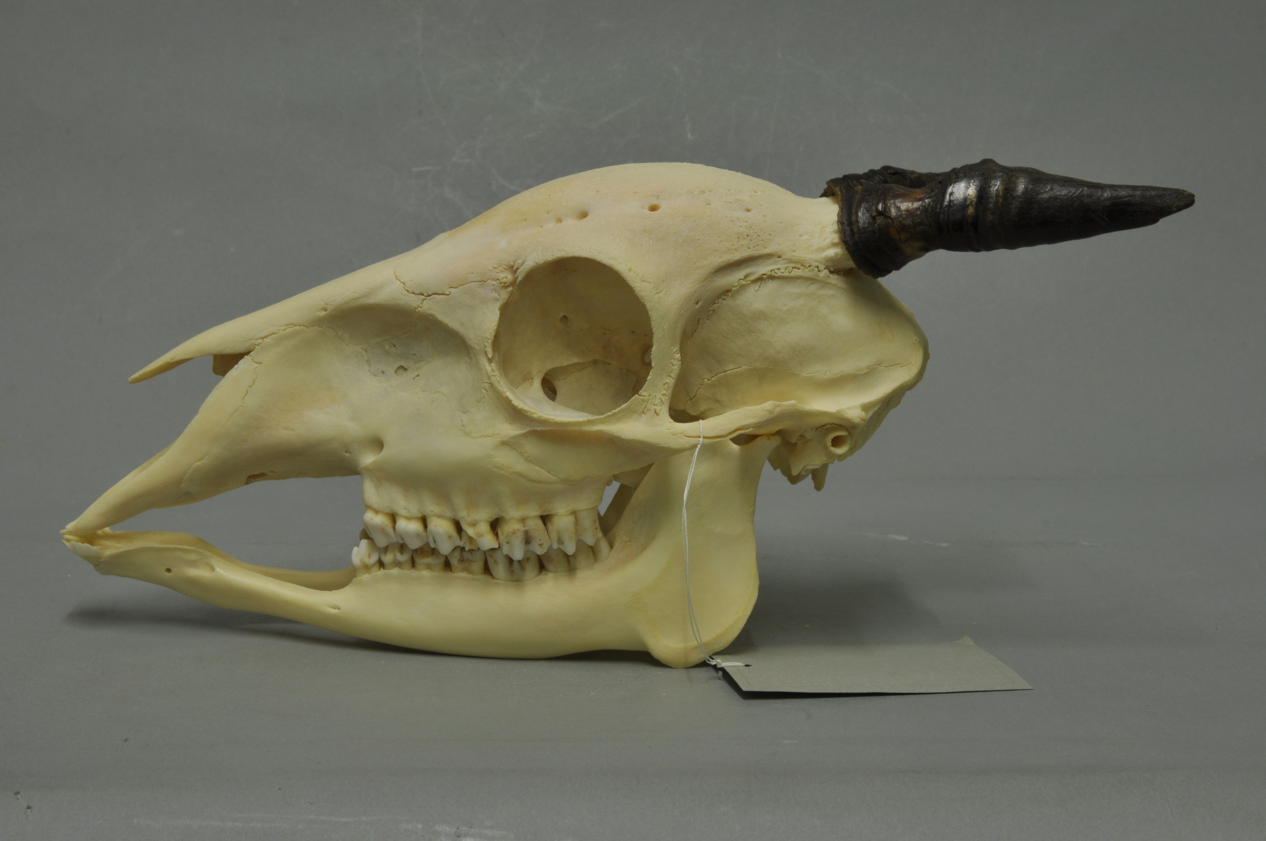 Ogilby's duiker Cephalophus ogilbyi, skull, Coll. Museum Wiesbaden